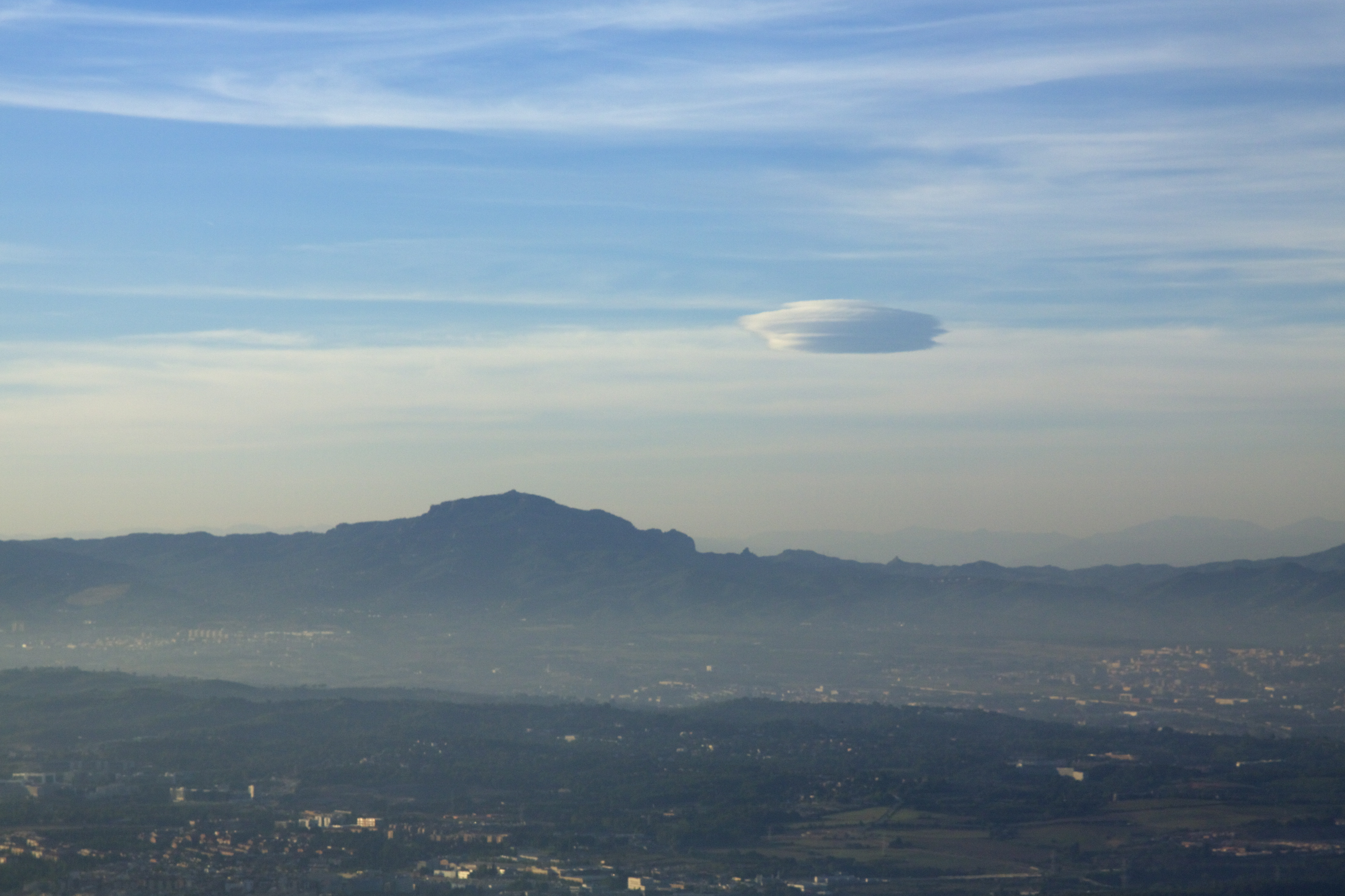 Lenticular cloud near Sant Llorenç del Munt, Catalonia